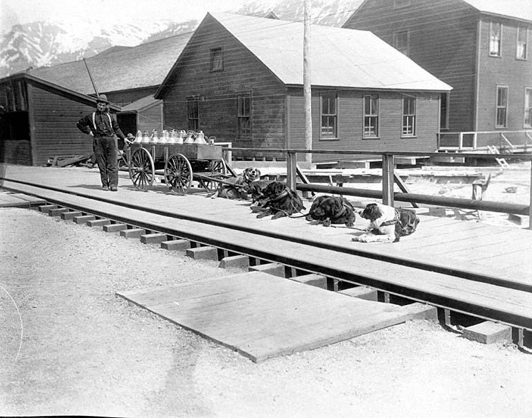 From John Cobb field notebook: Milkman with dogteam, Treadwell. May 24, 1911 Subjects (LCTGM): Carts & wagons--Alaska--Treadwell; Dog teams--Alaska--Treadwell Subjects (LCSH): Treadwell (Alaska); Milk trade--Alaska--Treadwell; Working dogs--Alaska--Treadwell; Milk cans--Alaska--Treadwell